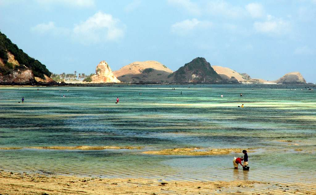 Picking fishes @ Kuta beach, Lombok